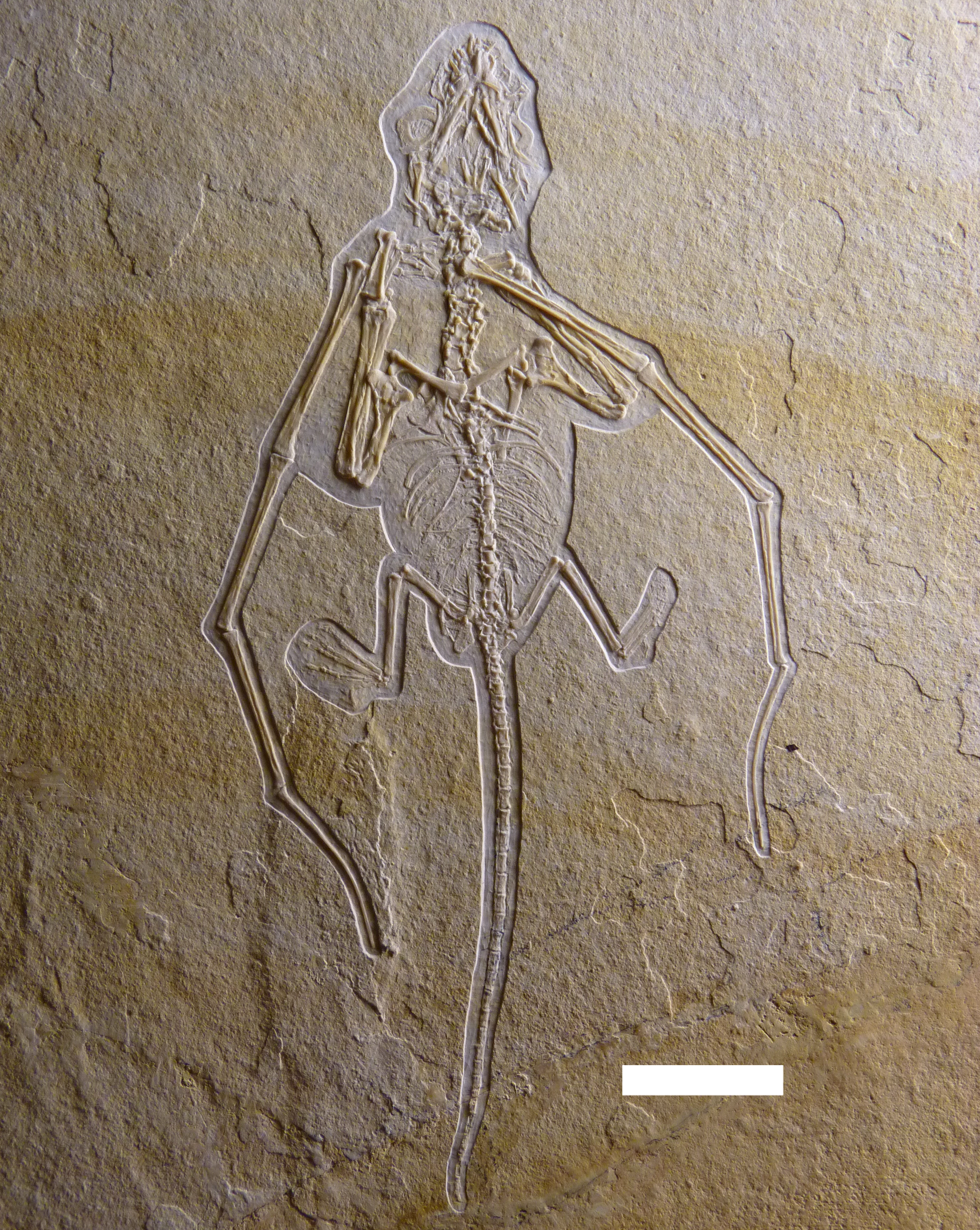 Holotype specimen of Bellubrunnus BSP XVIII–VFKO–A12. Scale bare 1 cm.